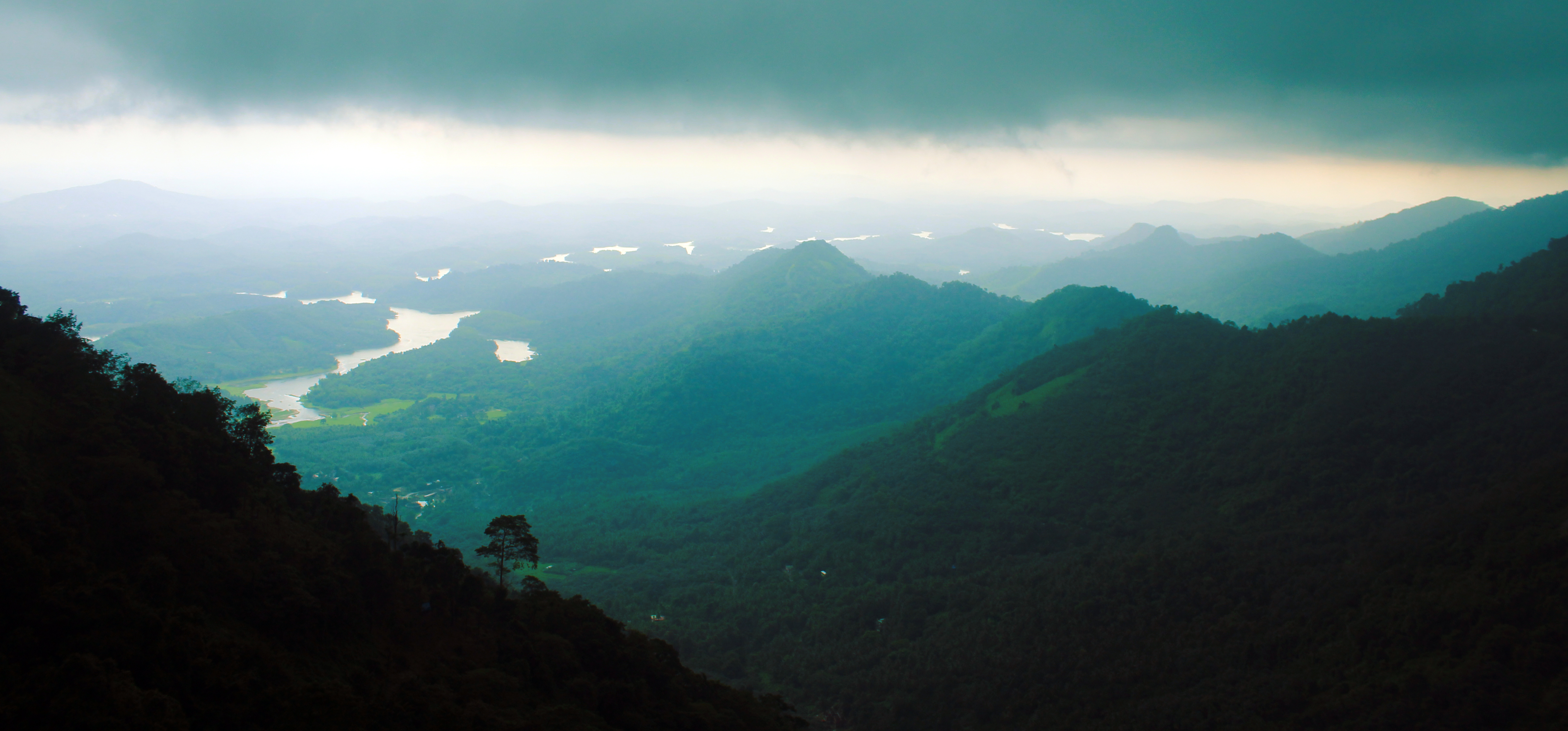 Kakkayam dam is a beautiful torist spot